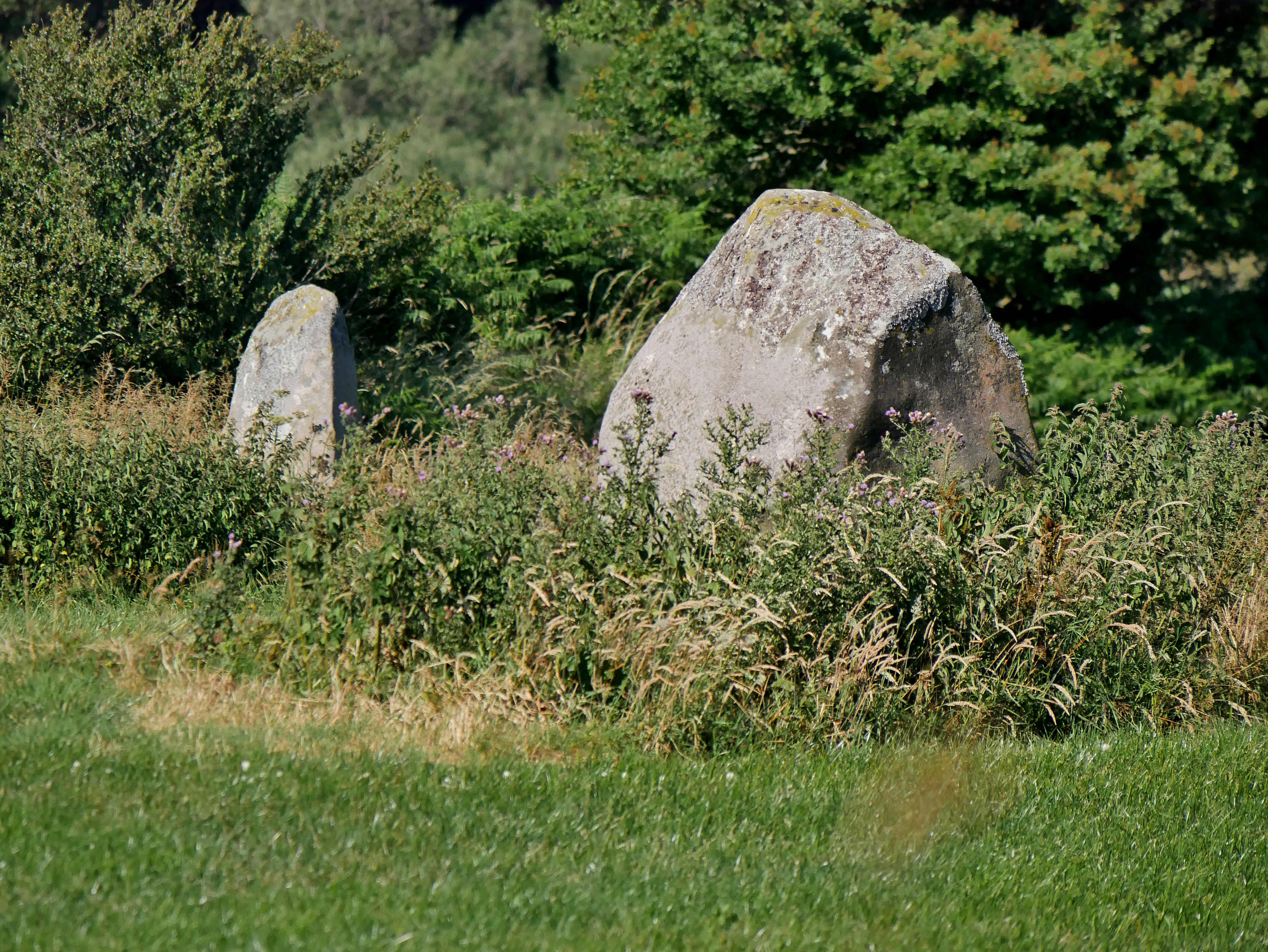 Maenclochog Standing Stones - north of the village